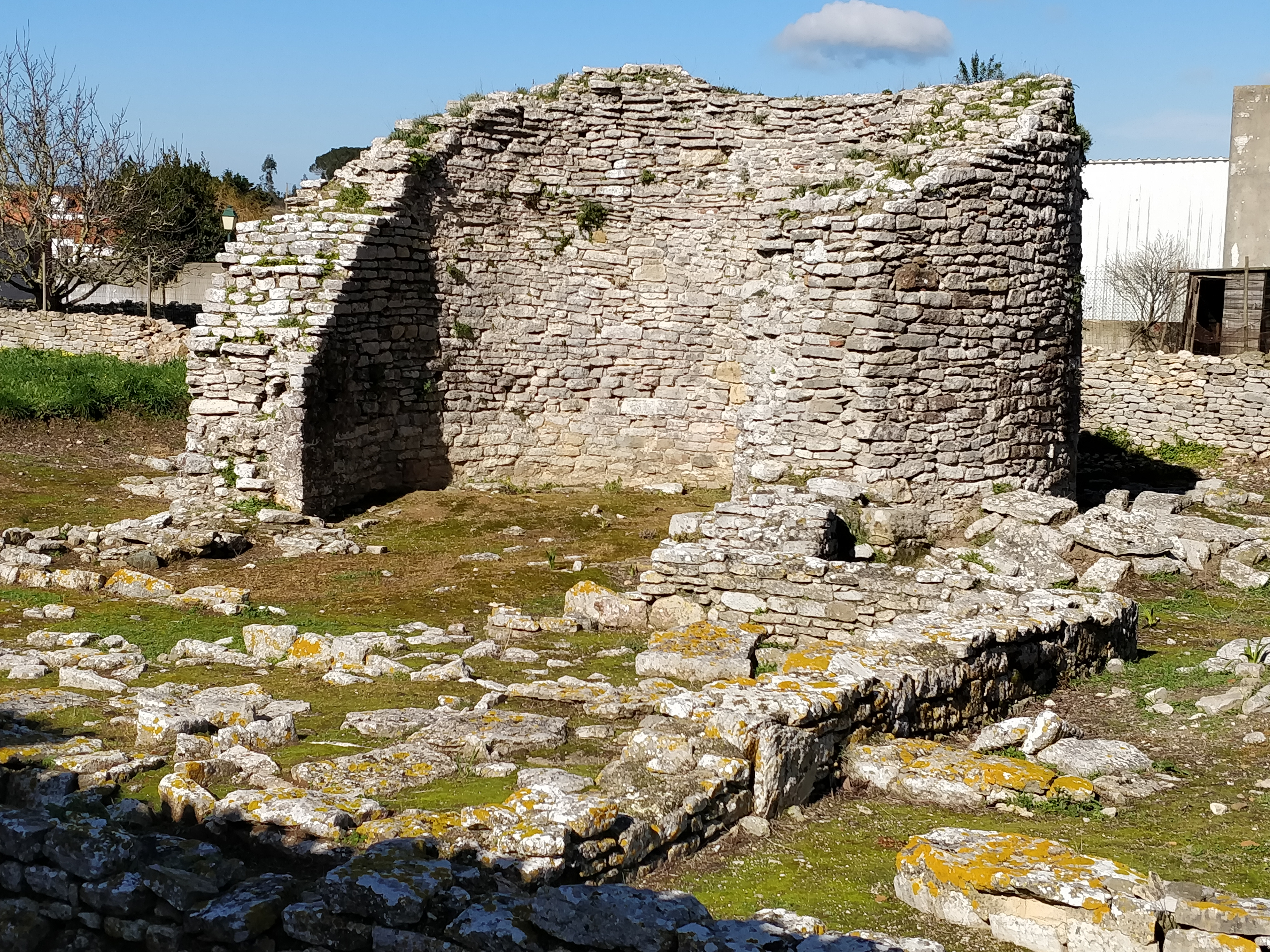 Remains of a Roman villa at Odrinhas, Sintra, Portugal. The ruins are in the grounds of the Archaeological Museum of São Miguel de Odrinhas